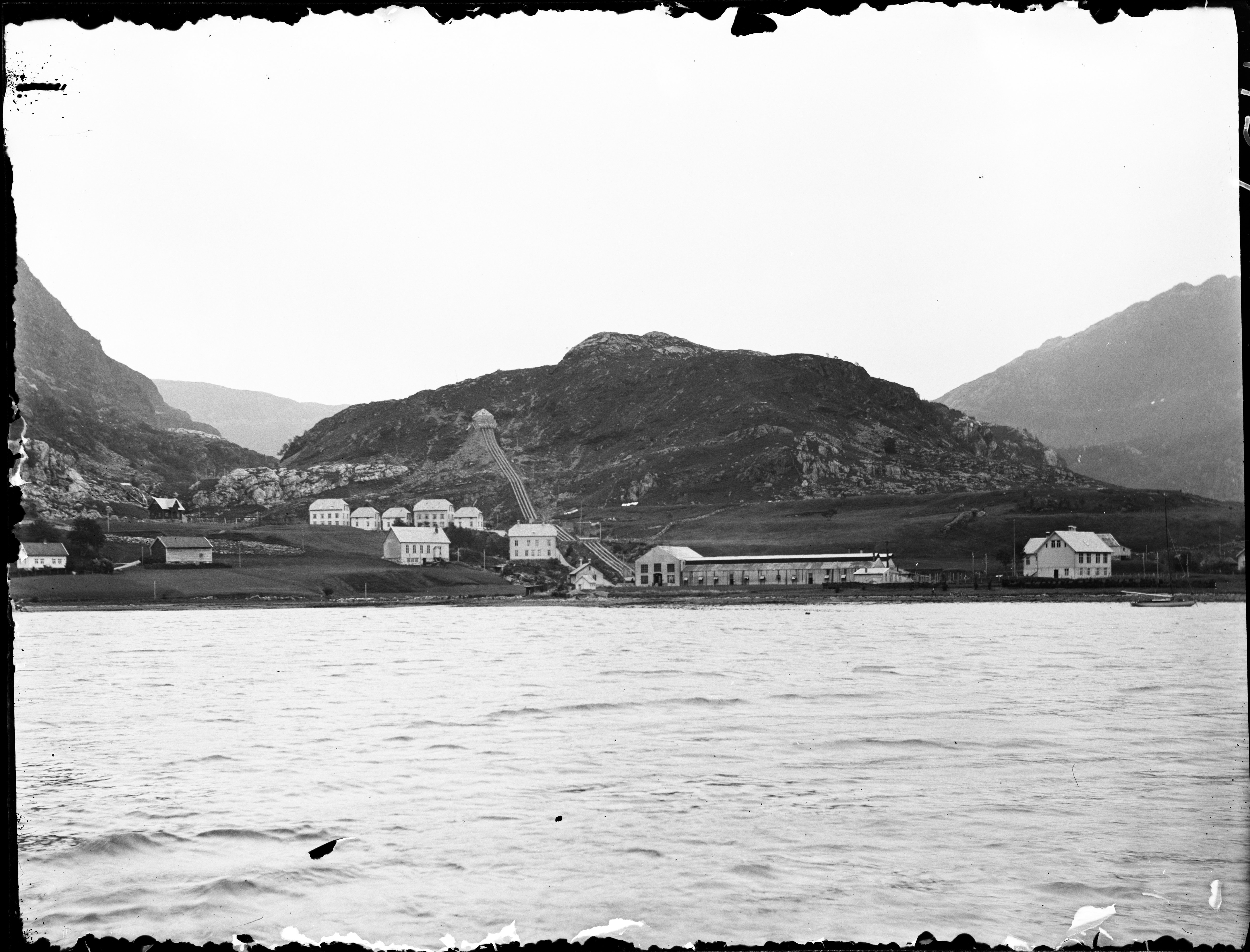 View of Stongfjorden from the fjord. Photographer Paul Stang. Contributed by Sogn og Fjordane County Archives.